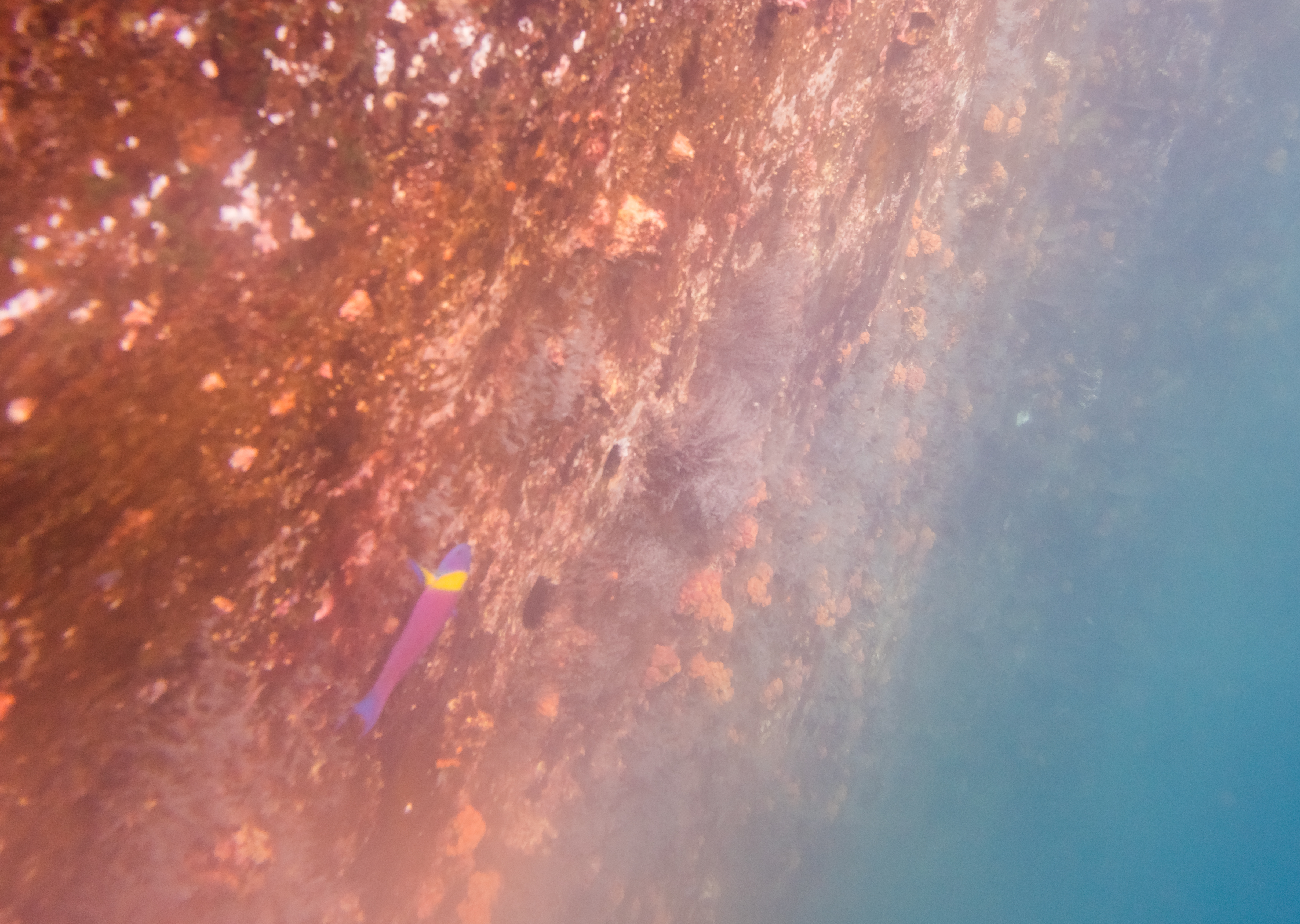 Cortez rainbow wrasse (Thalassoma lucasanum), San Cristobal island, Galapagos islands, Ecuador